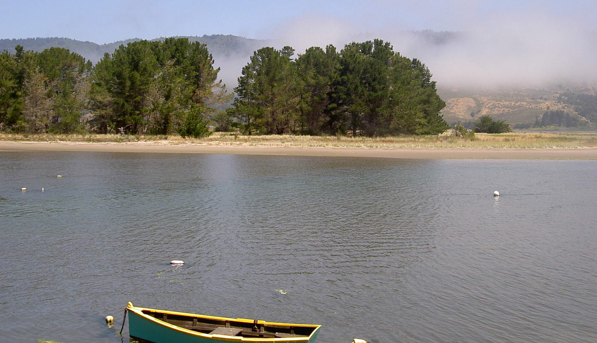 Kent Island — in Bolinas Lagoon, west Marin County, California. Seen looking north from Wharf Road in Bolinas.